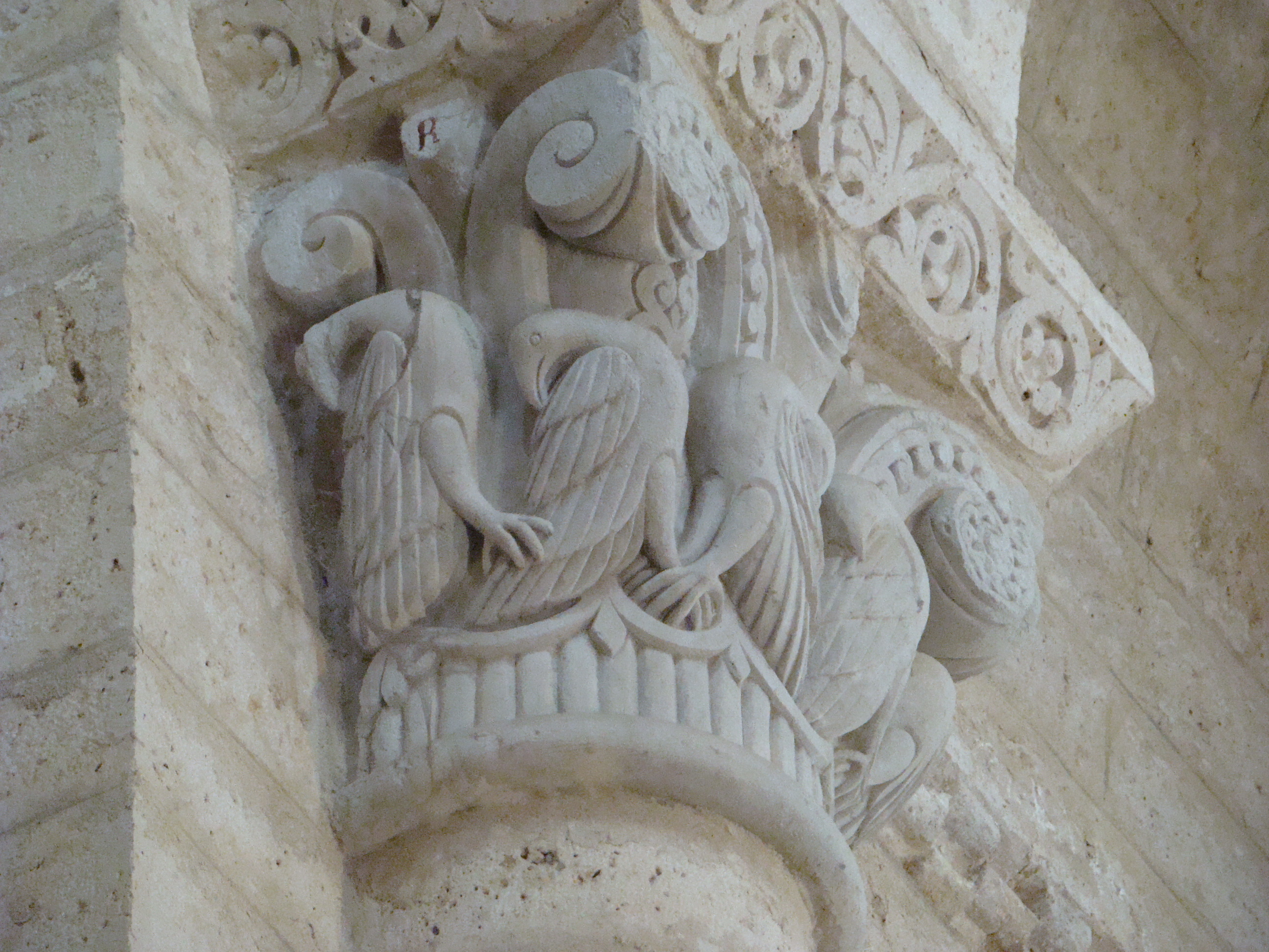 Capital of the pelicans in the romanesque church of San Martín de Fromista in Palencia, Spain. In the christian religion, the pelicans typify the sacrifice of Christ who poured his blood for the souls salvation.